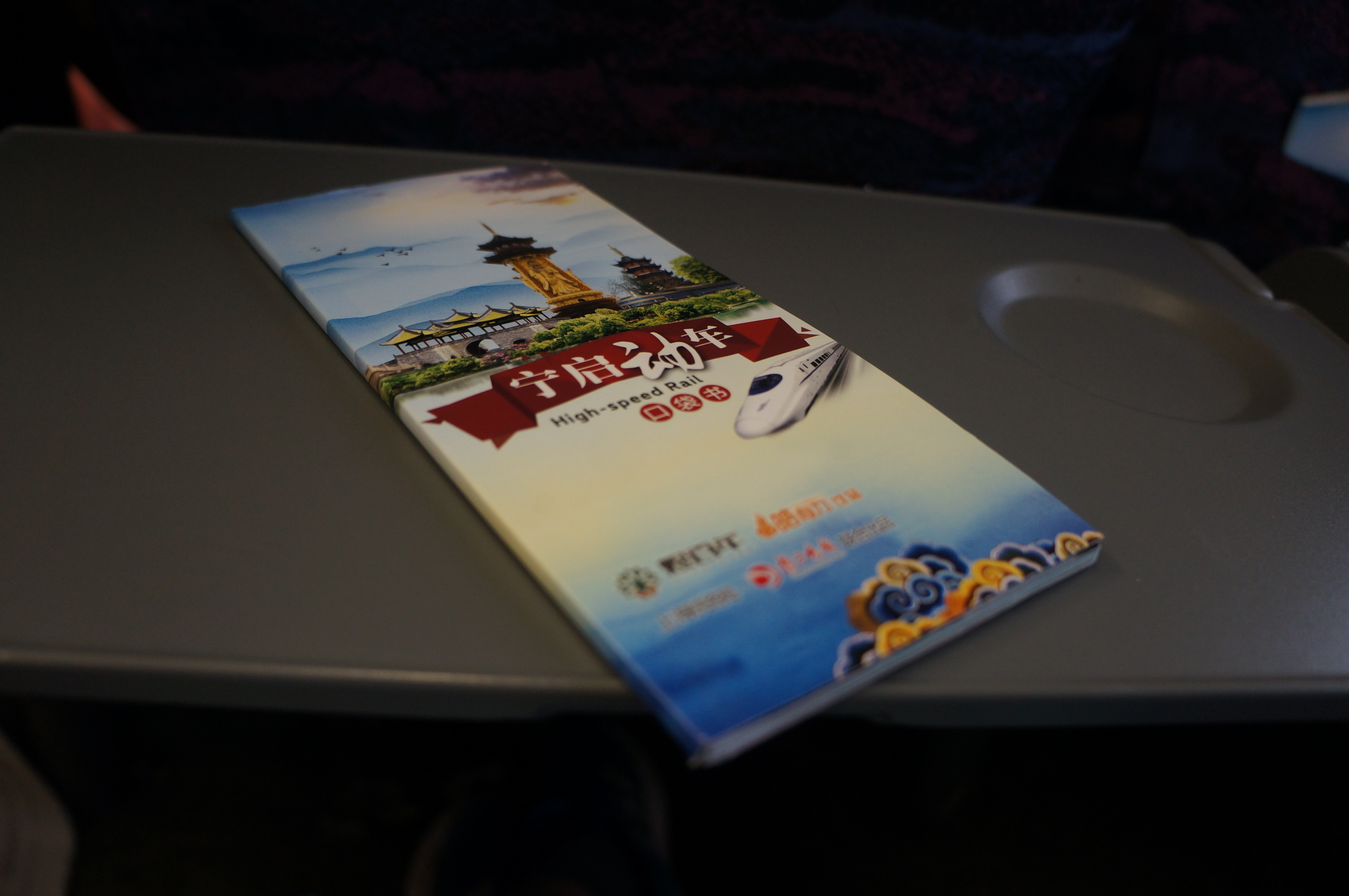 201606 Leaflet for opening of Nanjing–Qidong electrified railway